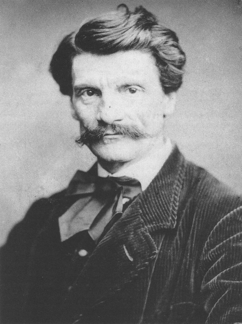 Carl Theodor von Piloty (1826-1886)